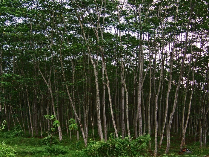 Paraserianthes falcataria stand. Bogor, West Java, Indonesia